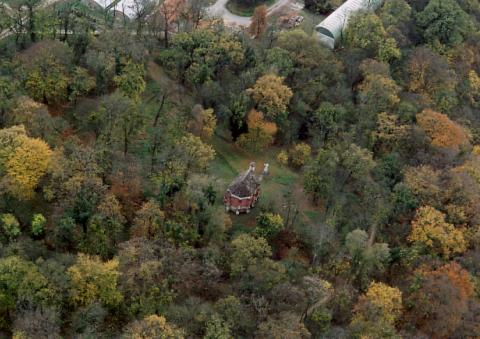 Somogyzsitfa, Hungary, aerialphotography